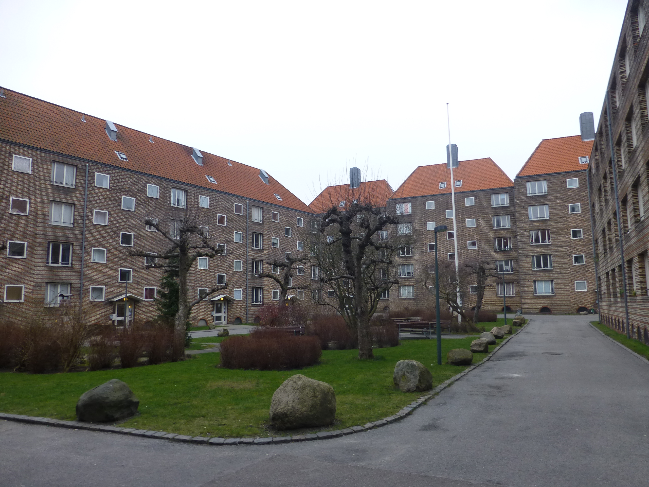 Fogedgården is a street and area in Nørrebro in Copenhagen.